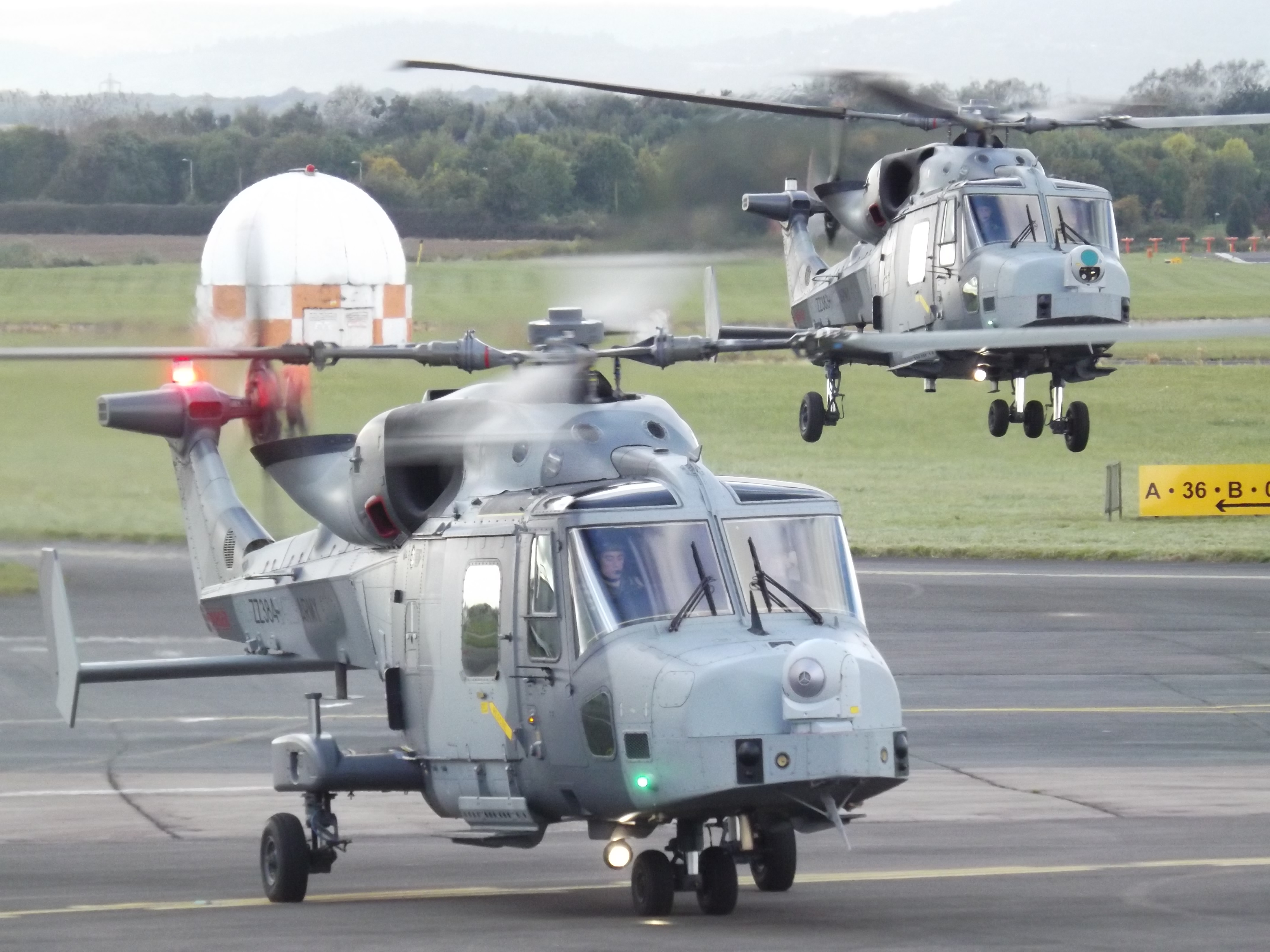 At Gloucestershire Airport.